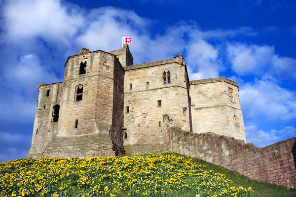 The Keep of Warkworth Castle, taken April 2004 by James McQuillen.